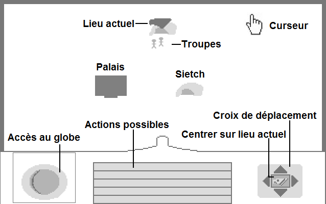 Interface of the video game Dune (1991)